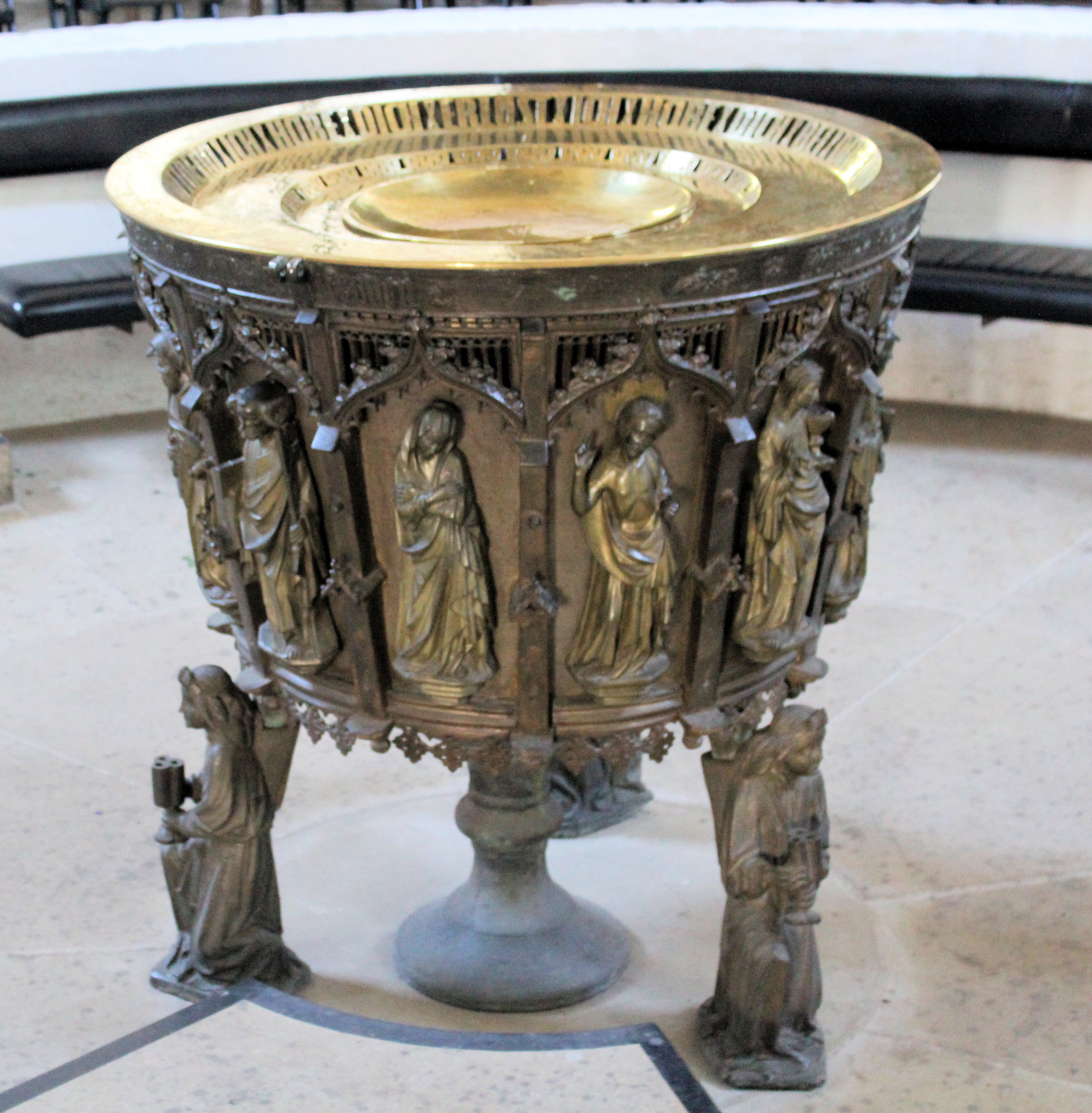 Lübeck, cathedral, the baptismal font